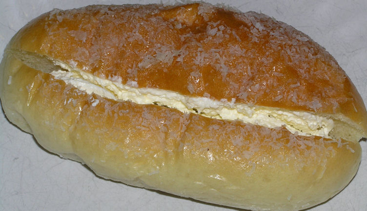 Cream bun